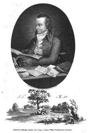 Portrait as frontispiece from "Thoroton's History of Nottinghamshire: Republished with Large Additions, by John Throsby."